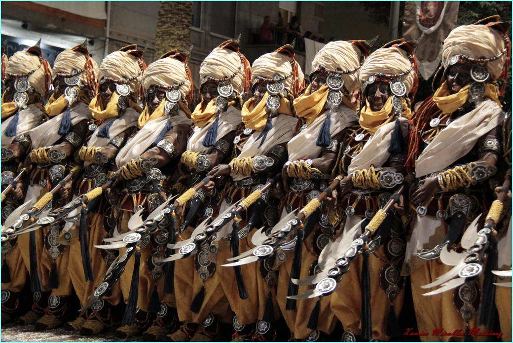 FESTES DE MOROS I CRISTIANS DE COCENTAINA 2017